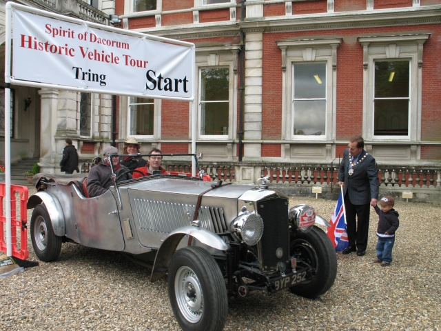 Classic Car Rally, Tring Park. The Official Starter was the Mayor of Tring, Councillor Mike James. See also . . . 1608850; 1608852; 1608855